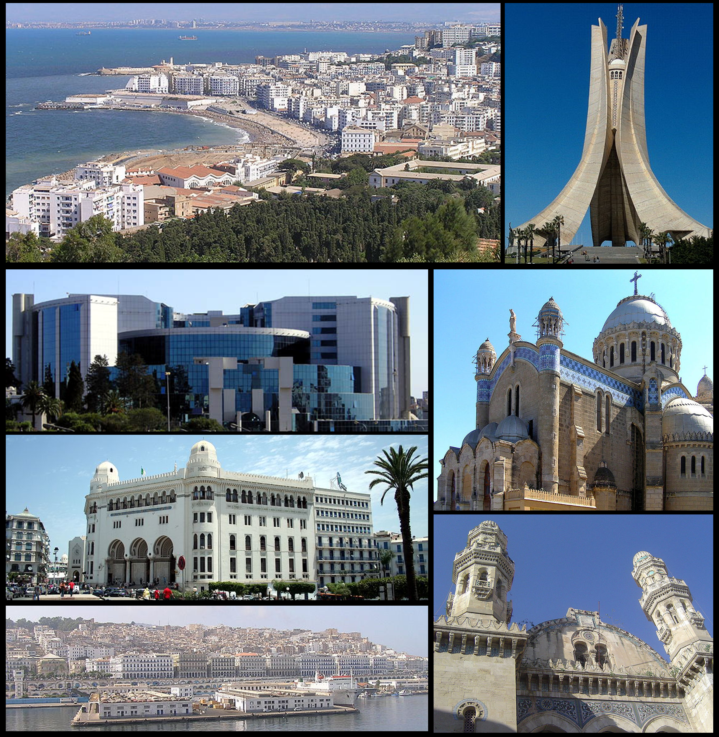 A montage of Algiers images, made from multiple existing images: File:Algeri01.jpg File:Algiers coast.jpg File:Notre-Dame-Afrique.jpg File:Makamelchahid.JPG File:Ministerefinacealger.jpg File:Another close view of Ketchaoua Mosque.jpg File:Alger-Grande-Poste-1.jpg Clockwise: Buildings along the Mediterranean coast of Algiers, Martyrs Memorial, Notre Dame d'Afrique, Ketchaoua Mosque, Casbah, and the Grand Post Office Licensing